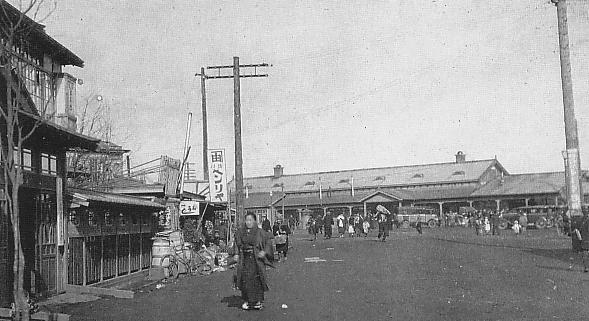 Kushiro Station in Taisho and Pre-war Showa eras